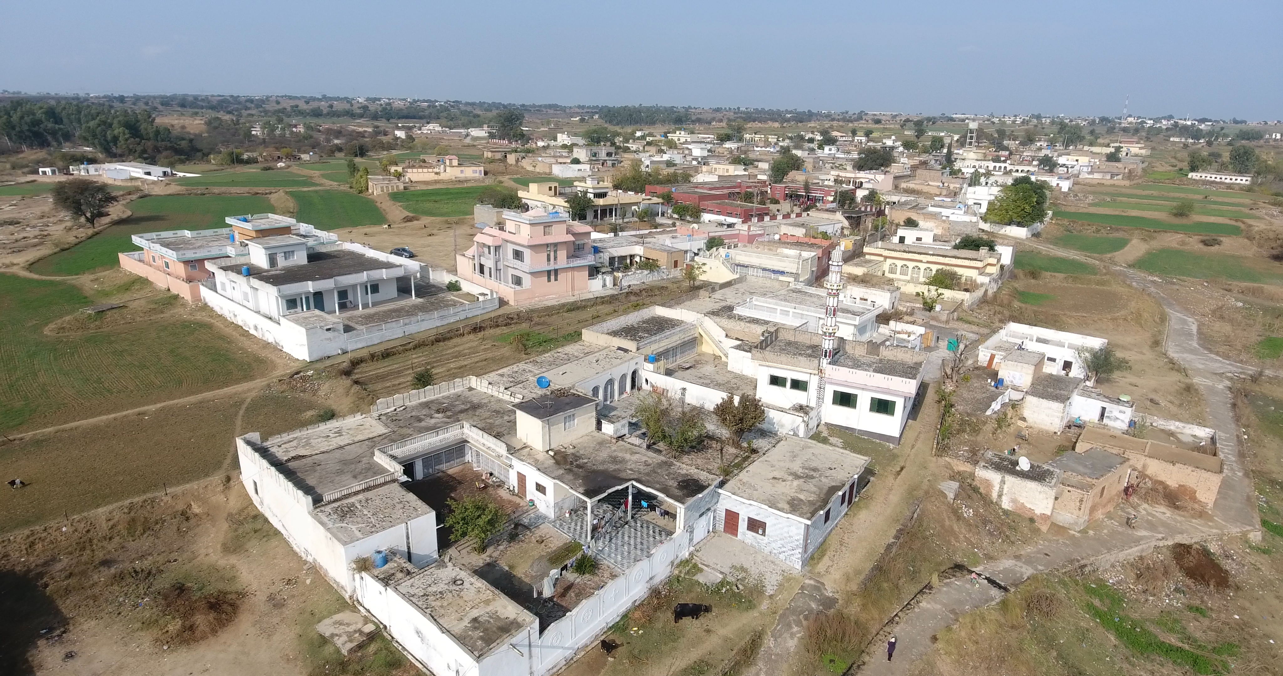 Beautiful aerial view of Phulrey Syedan village, in Sohawa tehsil, Jhelum district, Punjab, Pakistan